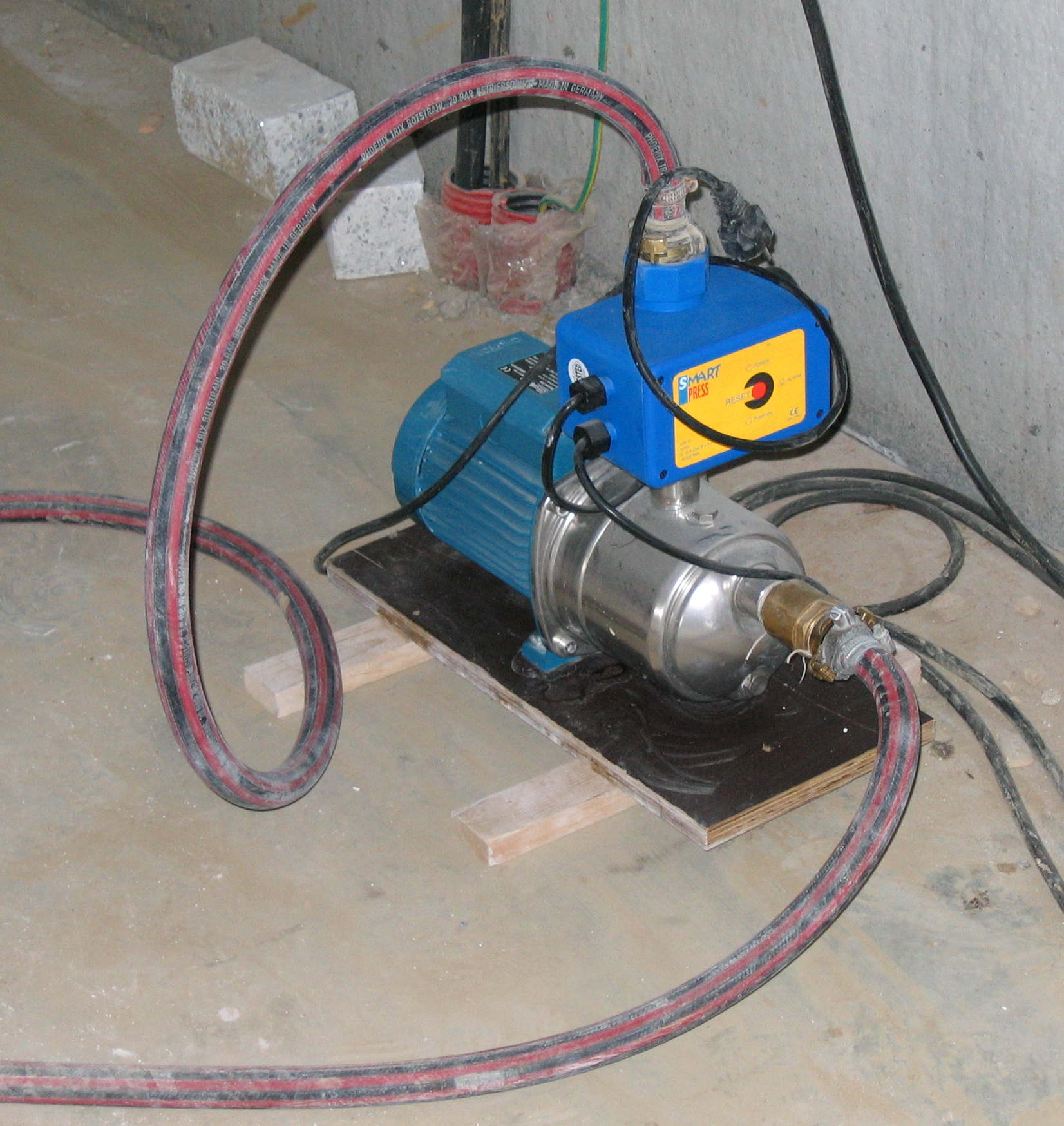 A picture of a jet pump (which is commonly used and widely available). This pump (as most pumps of this type) works on electricity and is thus a very clean (environmentally-friendly) device for transporting water.